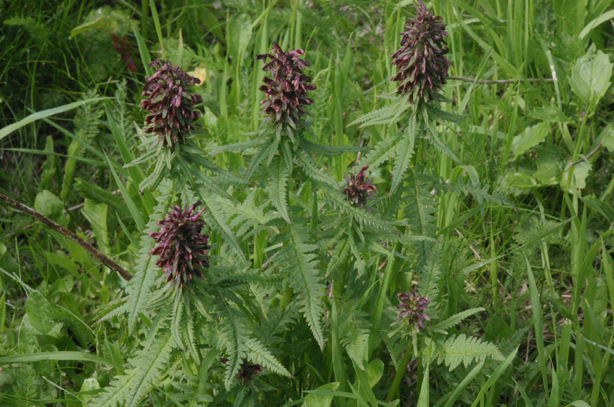 Pedicularis recutita